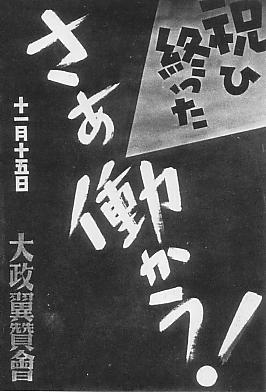 Imperial Rule Assistance Association Poster "The festival ended. Let's work!"